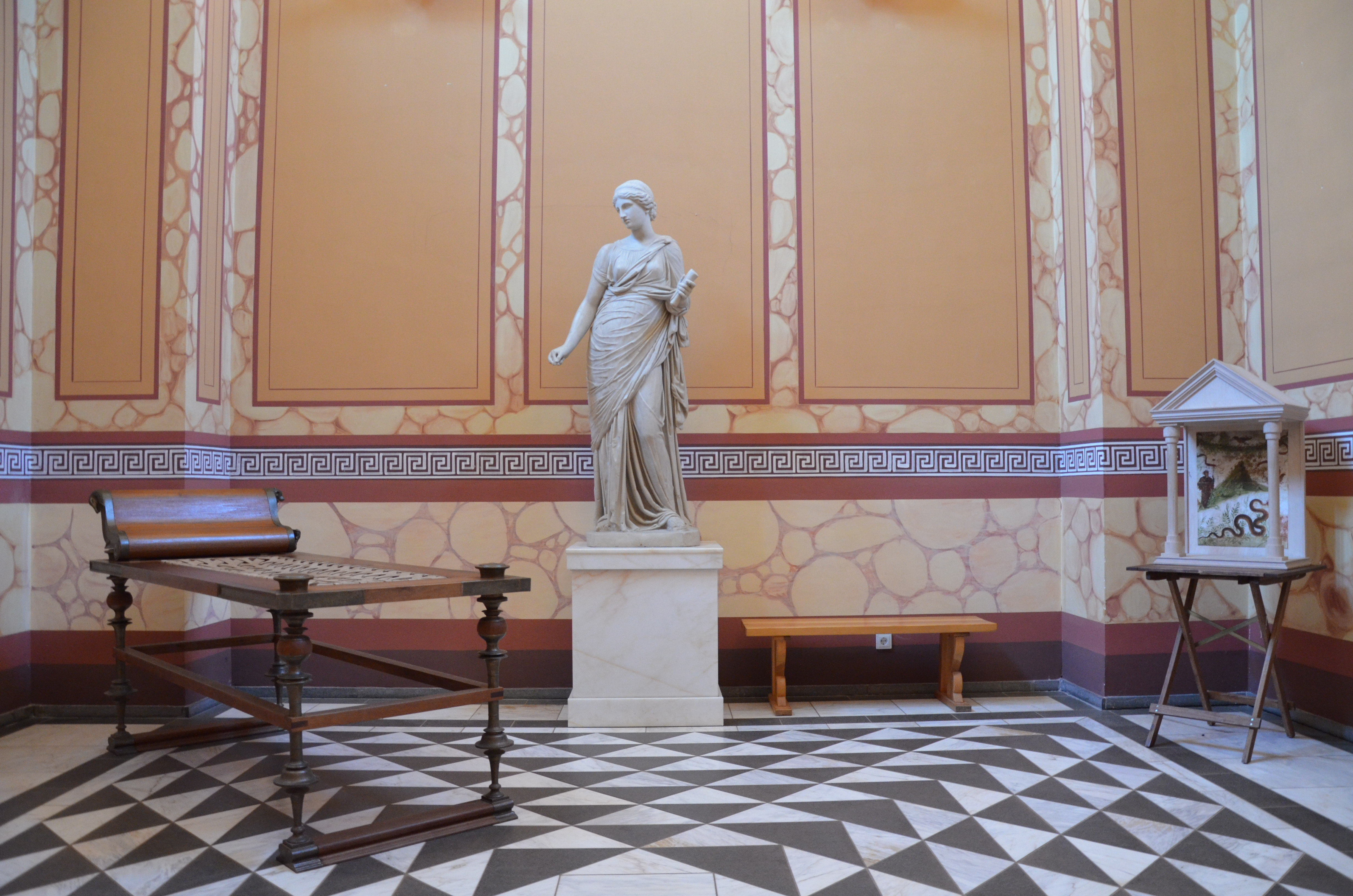 Roman Villa Borg, Germany